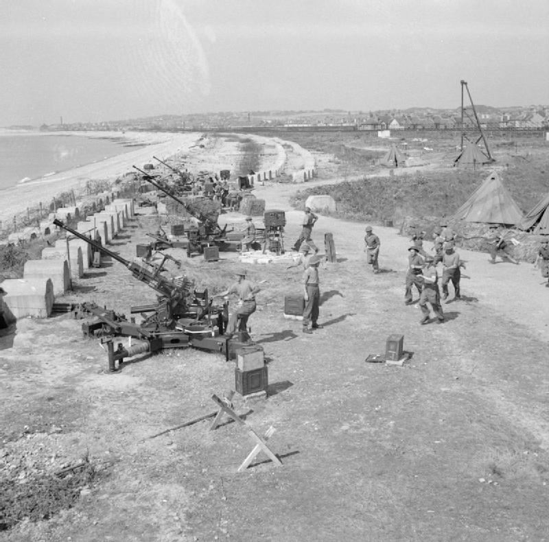 The British Army in the United Kingdom 1939-45 Crews rush to their Bofors guns at a South Coast anti-aircraft battery, 6 August 1944.